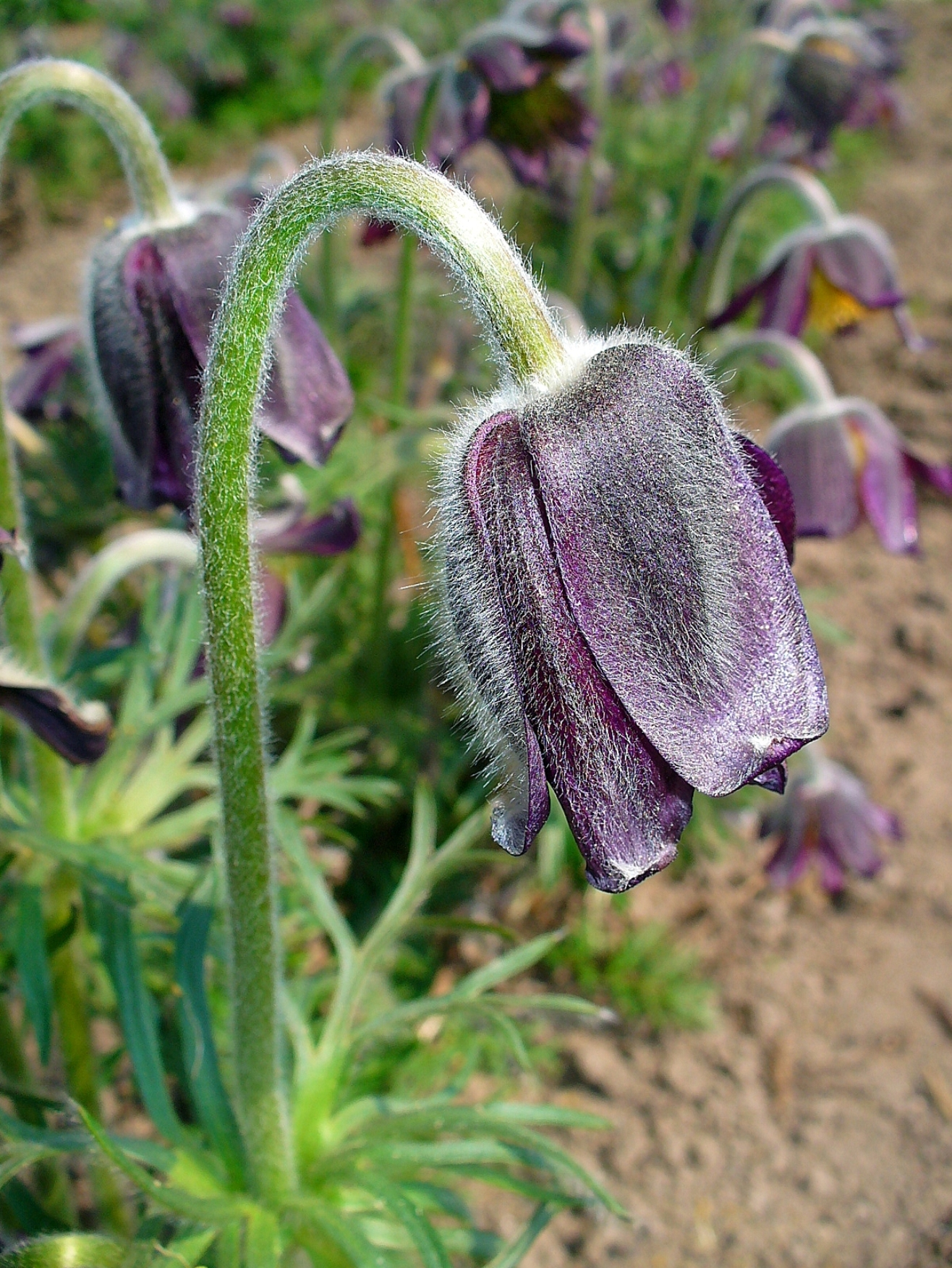 Pulsatilla pratensis ssp. nigricans, Ranunculaceae, Small Pasque Flower, flower.